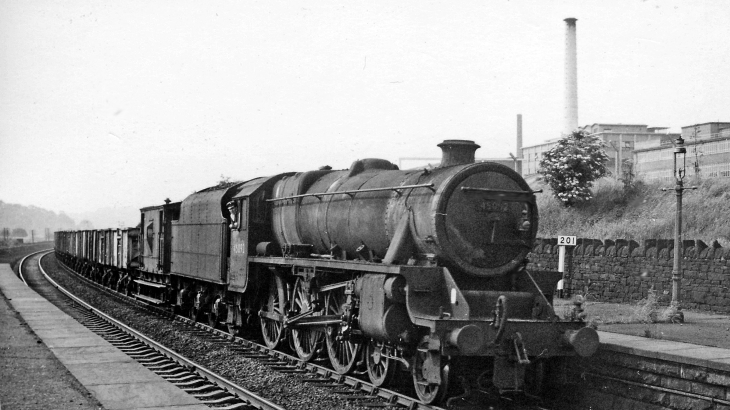 Up emties passing Calverley & Rodley station. View westward, towards Shipley and Bradford, West Yorkshire, and the main lines to Skipton Hellifield, Carlisle and Morecamb: ex-Midland main line from Leeds. Stanier 5MT 4-6-0 No. 45092 (built 1935, withdrawn 11/67) is demeaned in its final years to working coal empties. Calverley & Rodley station was closed on 22/3/65 (goods 7/10/68), along with the other stations between Leeds and Shipley, but the line was electrified as far as Skipton in 1991. (See also SE2237 : Calverley & Rodley Station, with a St Pancras to Bradford express on its last leg from Leeds).